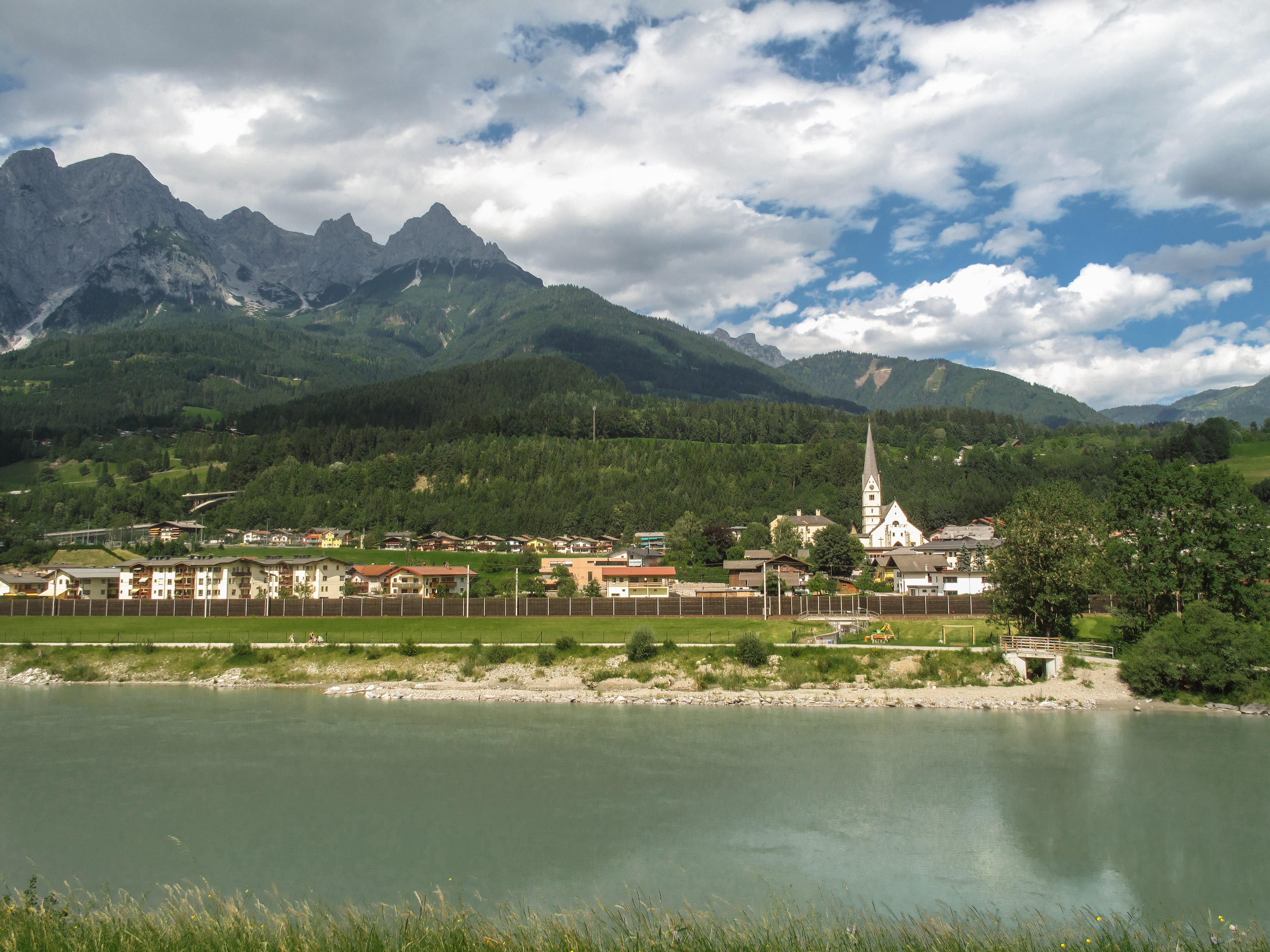 Pfarrwerfen, view to the village